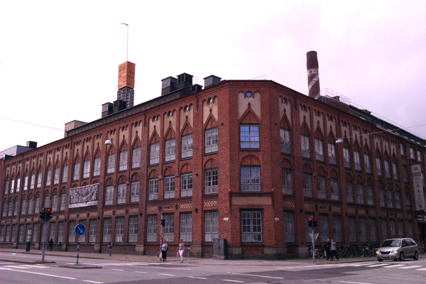 The Mazzetti House in Malmö (Sweden)